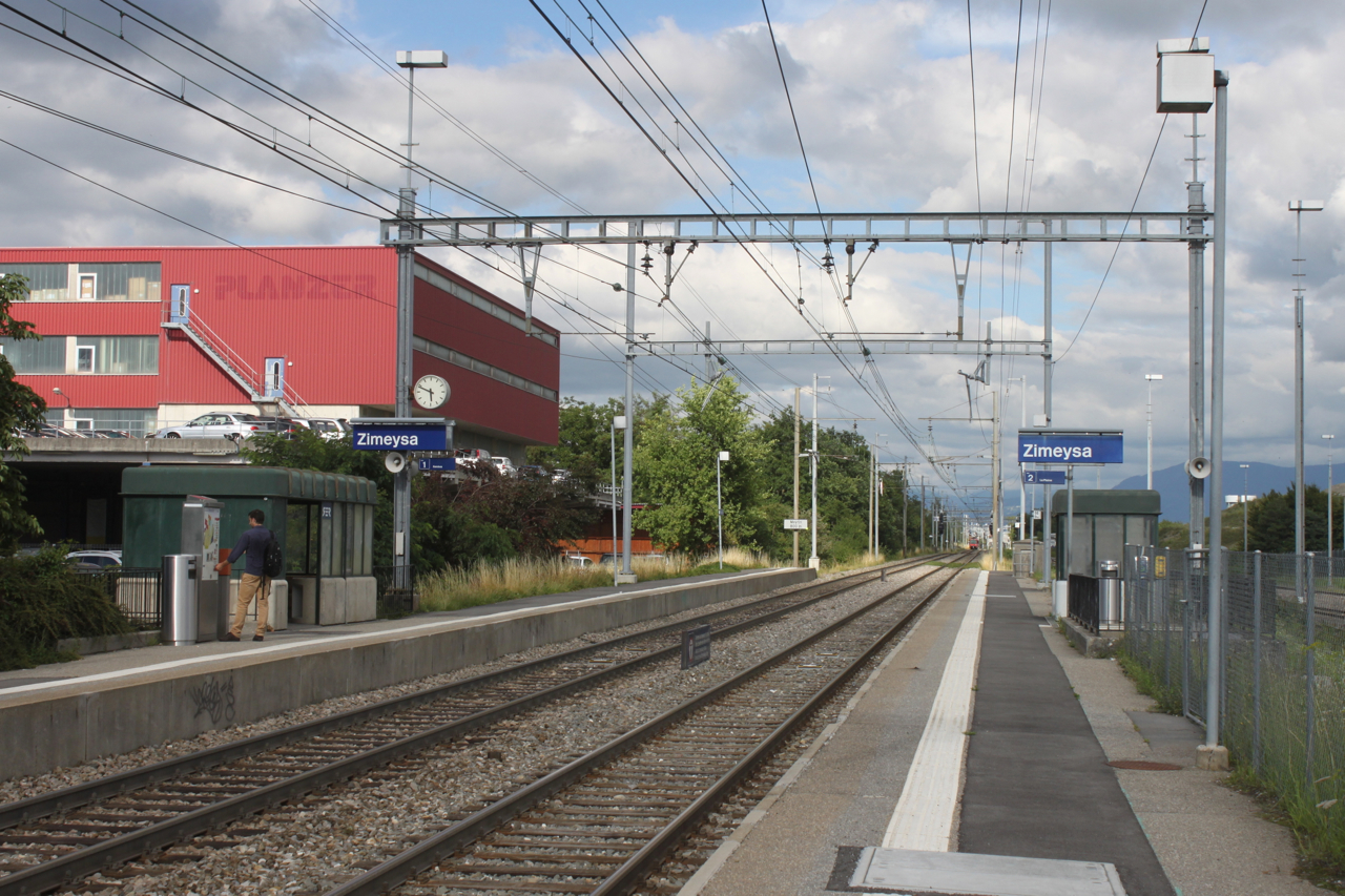 Zimeysa train station.